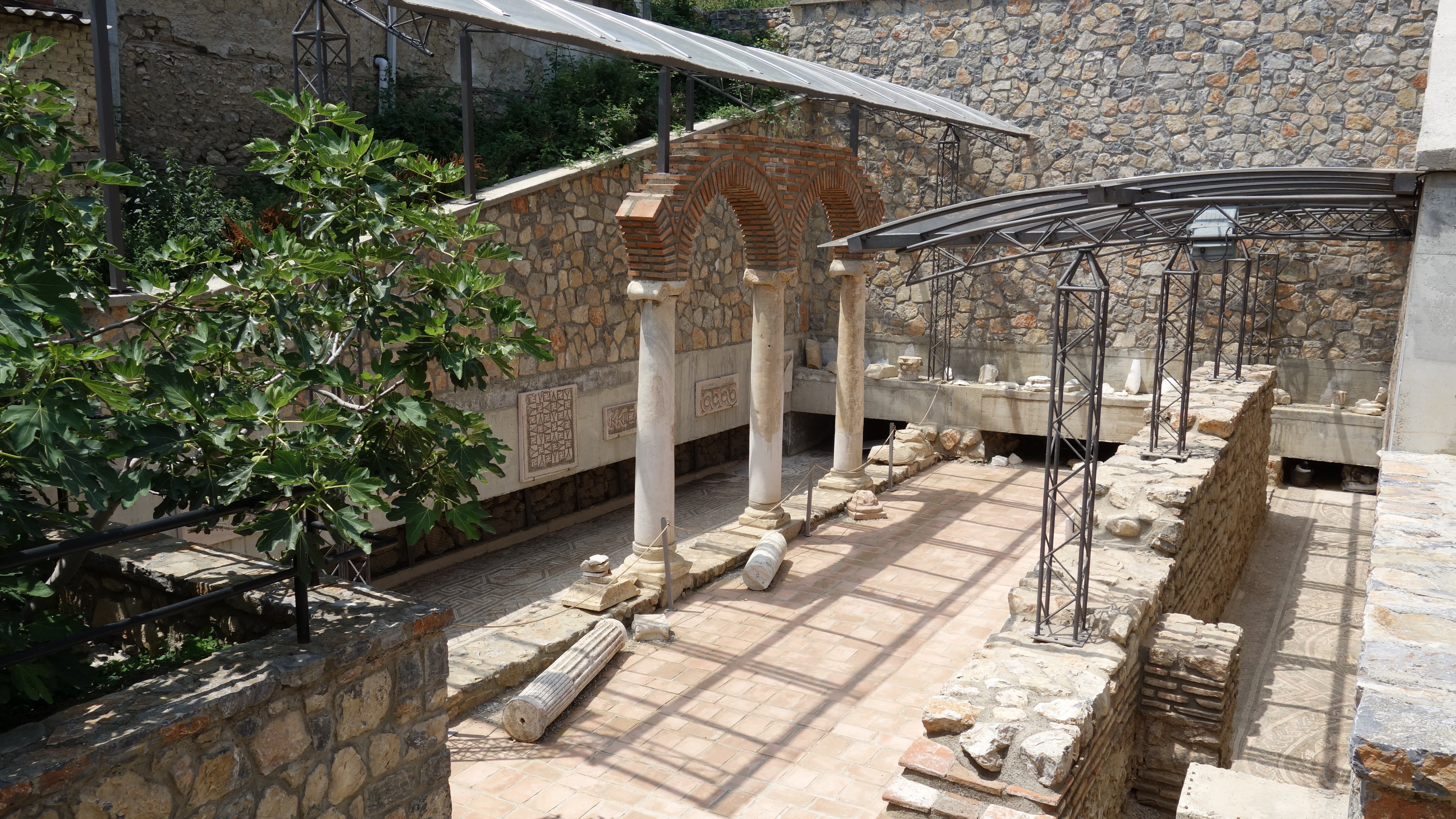 Archaeological site Mančevci, Ohrid Lake, Macedonia